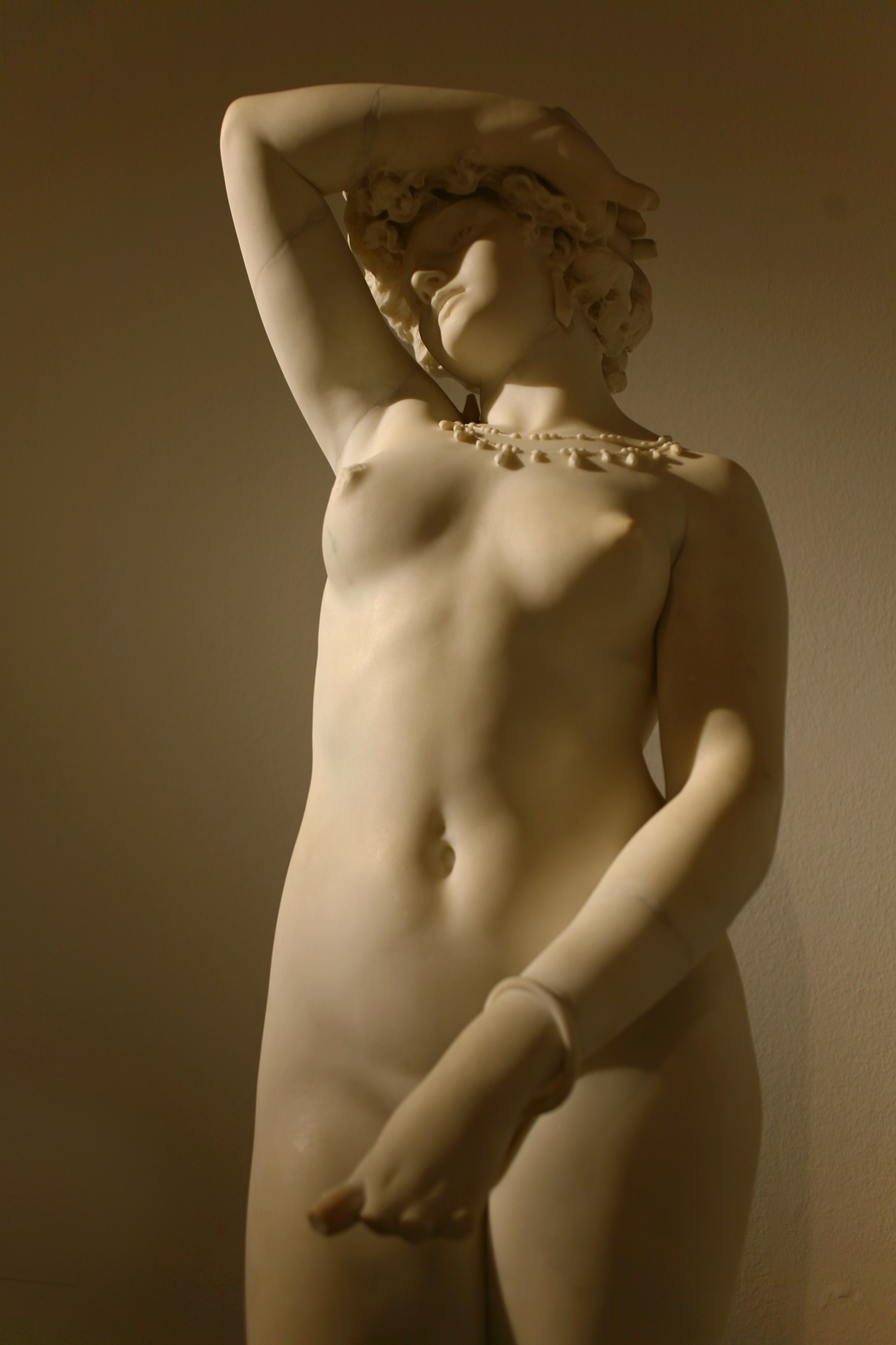 Francesco Barzaghi (1839-1892) Frine (1872), esposta alla Galleria d'Arte Moderna di Milano